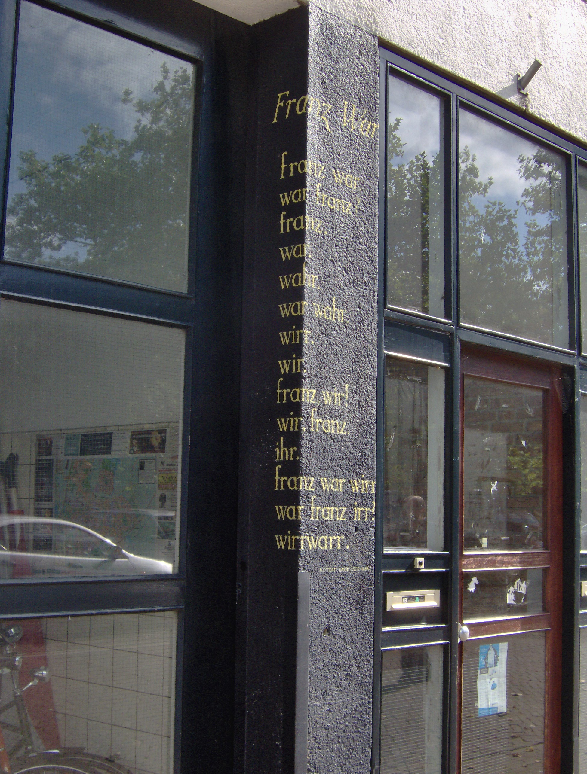 The poem Franz War of the Austrian poet Konrad Bayer on the front wall of the building at Kaasmarkt 4, Leiden, The Netherlands